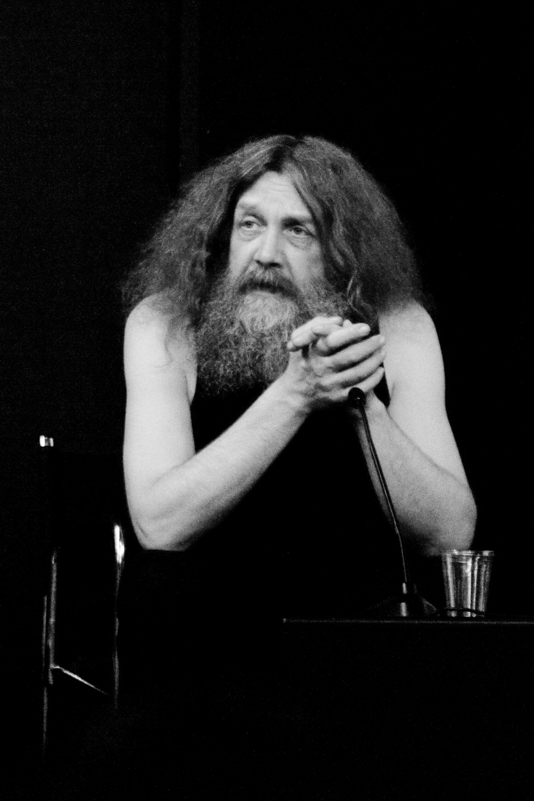 Alan Moore at the ICA on June 2nd 2009